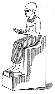 A drawing of Imhotep, who was an Egyptian vizier around 2600 BCE.